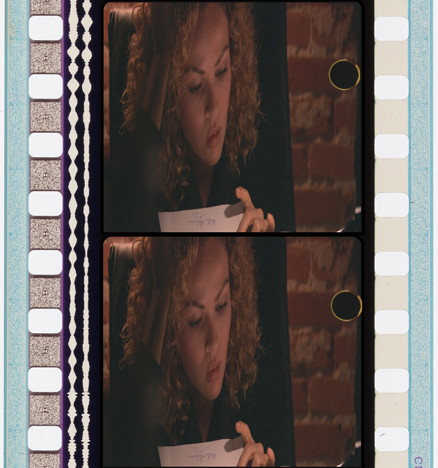 An image of section of 35 mm film for a motion picture release print, showing anamorphic image, several soundtrack formats, and simulated cue marking. Visible soundtrack formats are Sony Dynamic Digital Sound in the light blue sections on the left and right edges, Dolby Digital as a data-matrix between the perforations on the left side, and a stereo variable-area (Dolby Stereo) optical soundtrack (the pattern between the image area and the perforations on the left side). The DTS timecode, which would normally be positioned between the optical soundtrack and the image area, is not shown on this print.